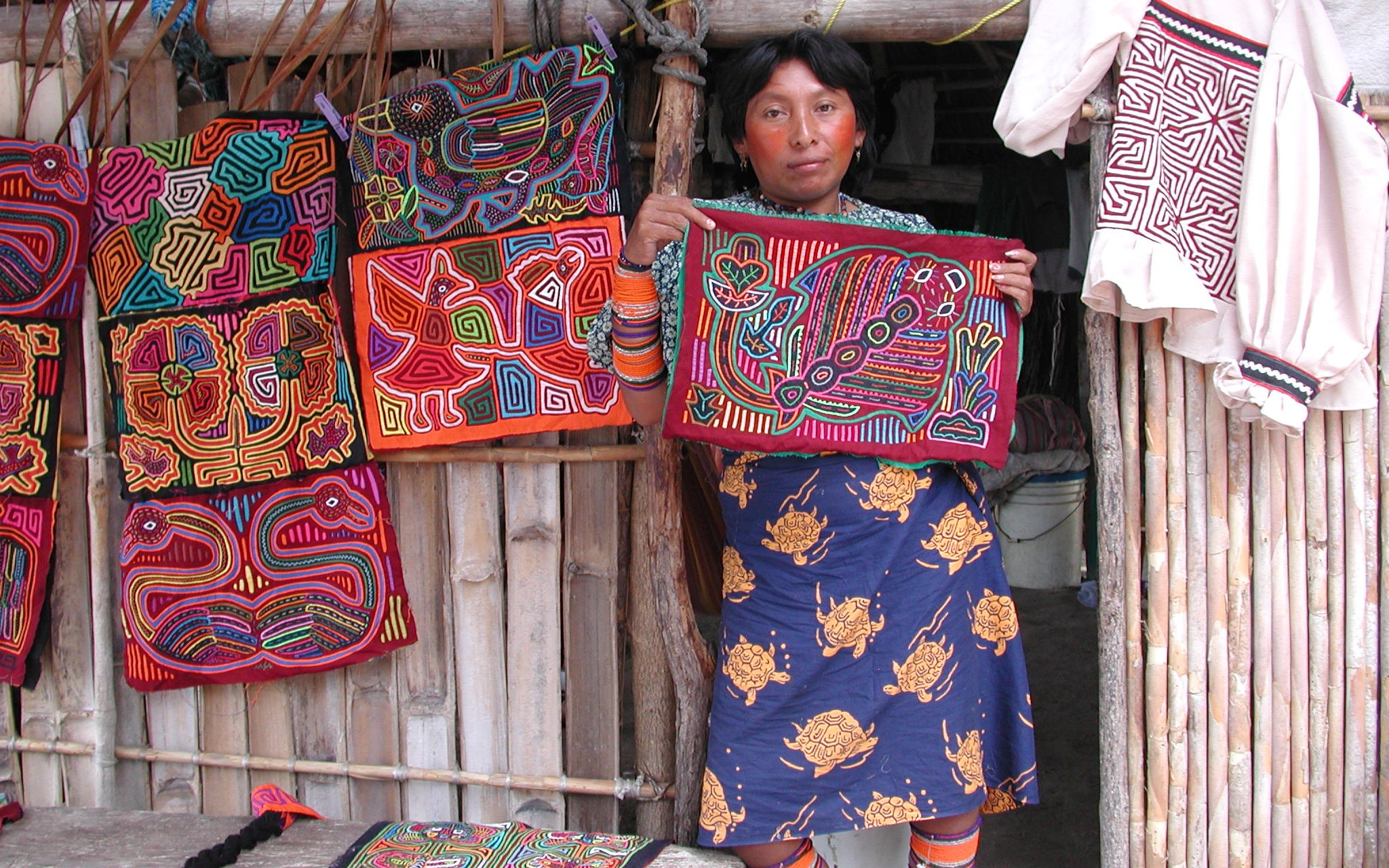 A Kuna woman displays a selection of molas for sale in the San Blas Islands of Panama.